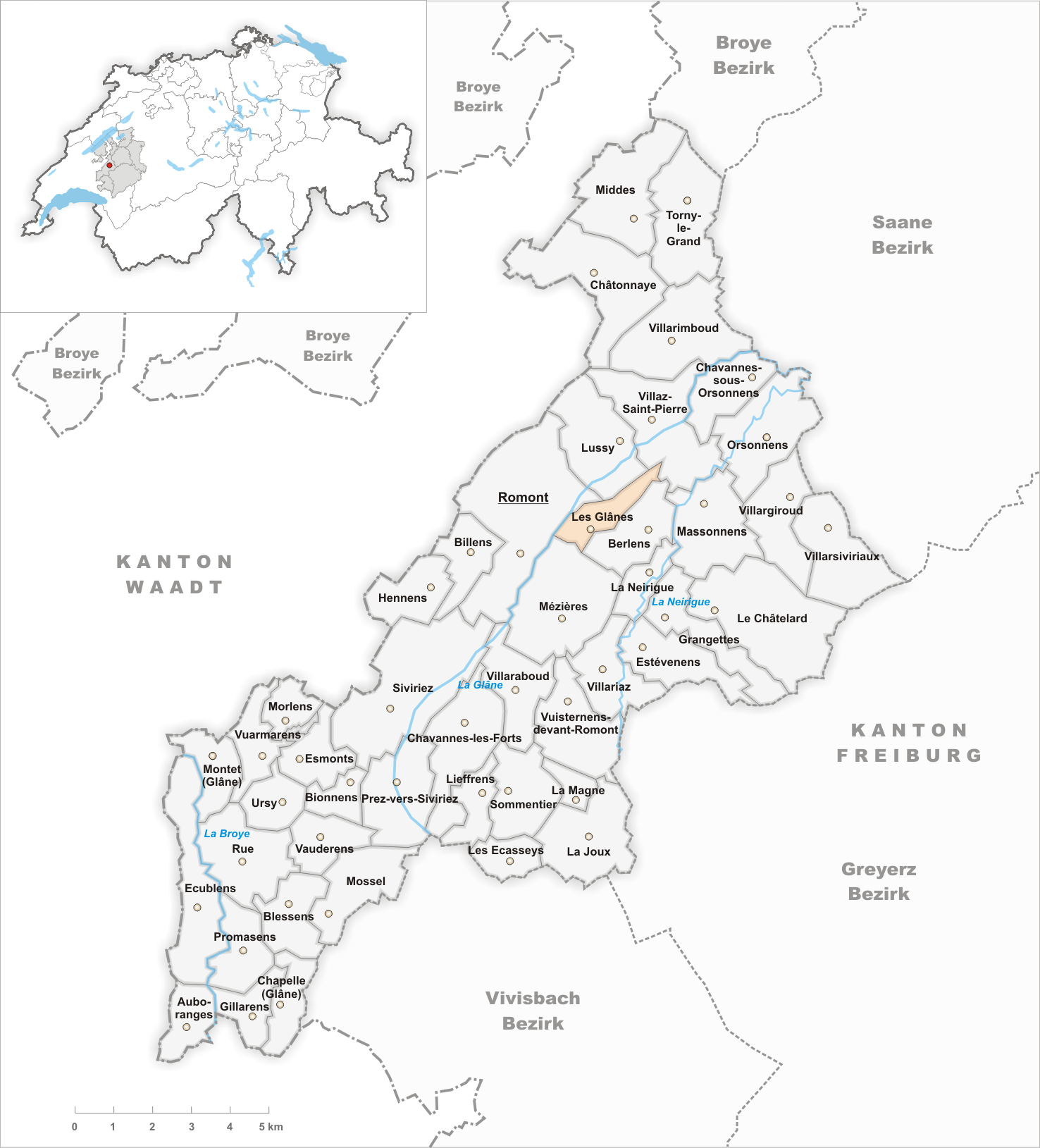 Municipality Les Glânes Artist: Tschubby